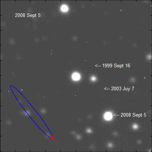 The position of the star VB 10 moving across the sky over a period of nine years.